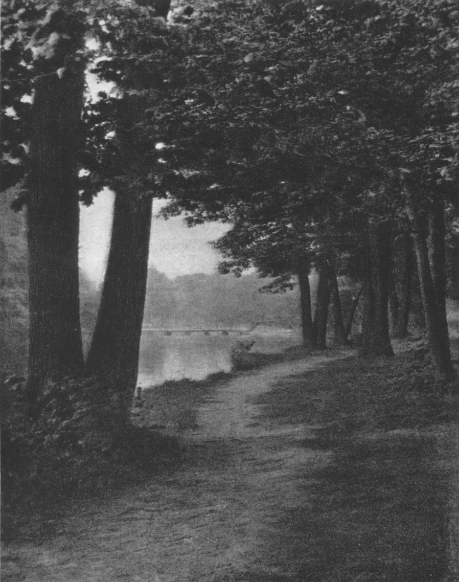 Des Plaines River Trail; photo credited as "By E. E. Gray, Chicago, Ill."